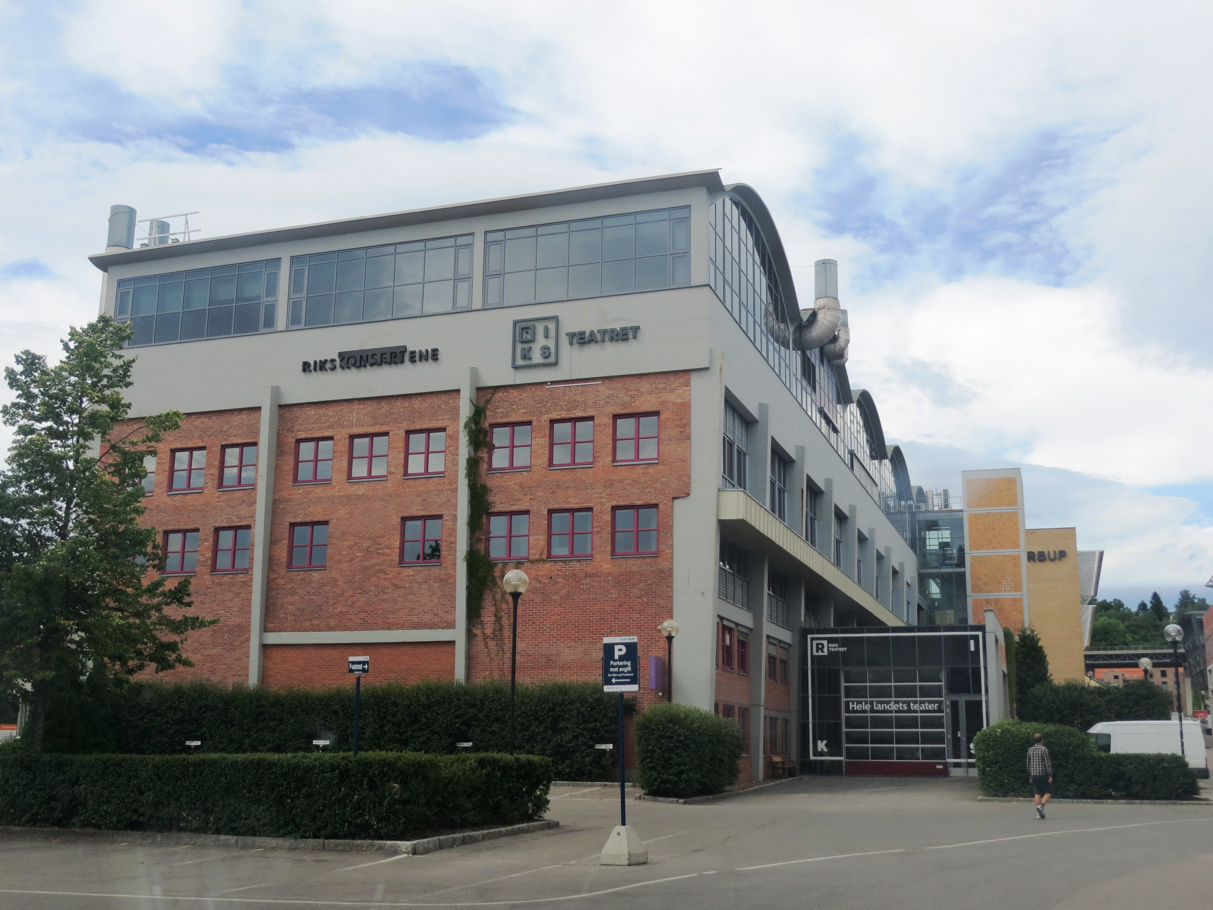 The headquarters of "Riksteatret" and "Rikskonsertene", two institutions that serve orchestras and theatres around Norway, and do performances in rural areas. Oslo, Norway